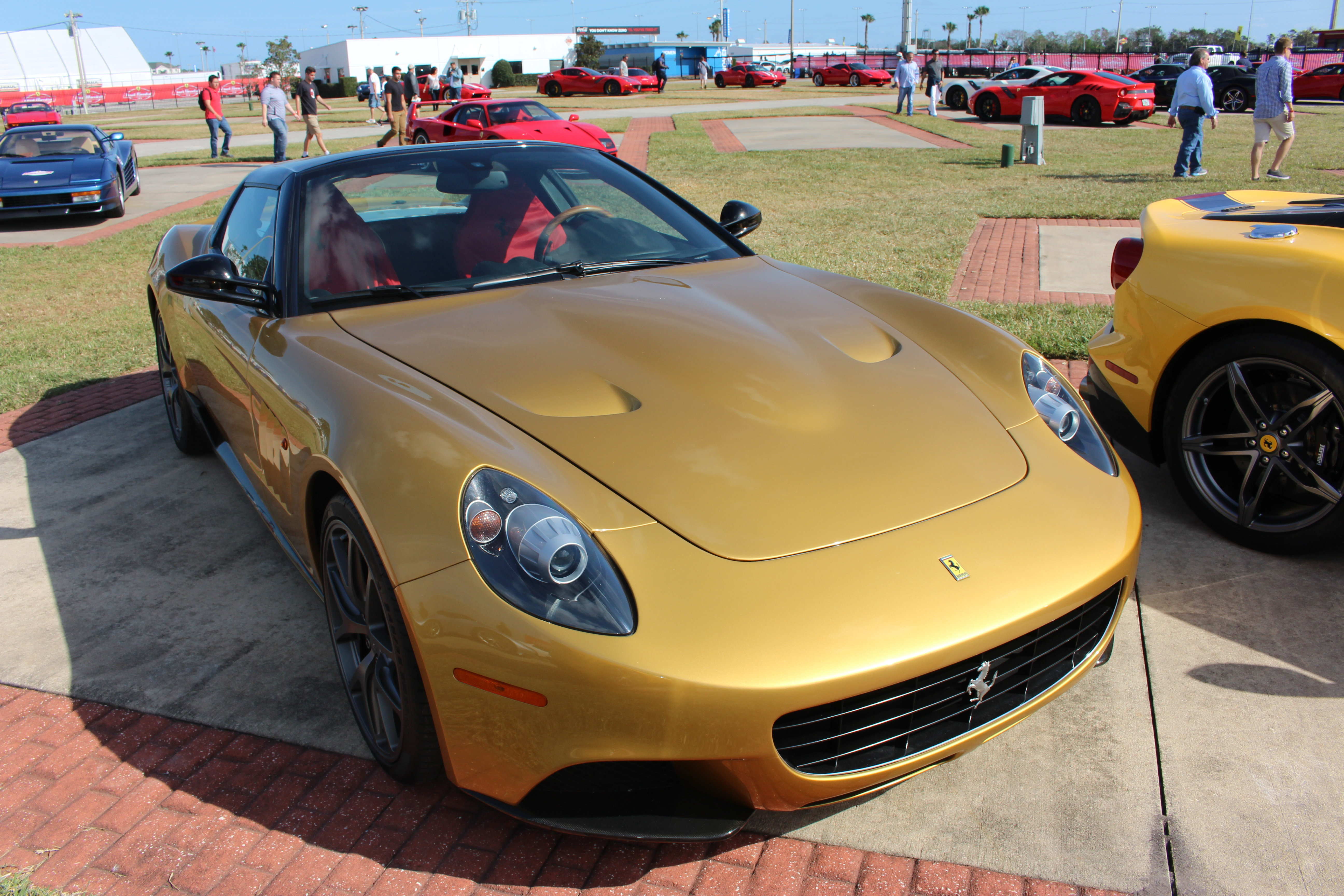 Ferrari P540 Superfast Aperta at the 2016 Ferrari Finale Mondiali in Daytona, FL, USA. There are 3 F60 Americas in this photo as well. Two additional F60 Americas not in this shot are to my left (5 of the 10 were present).